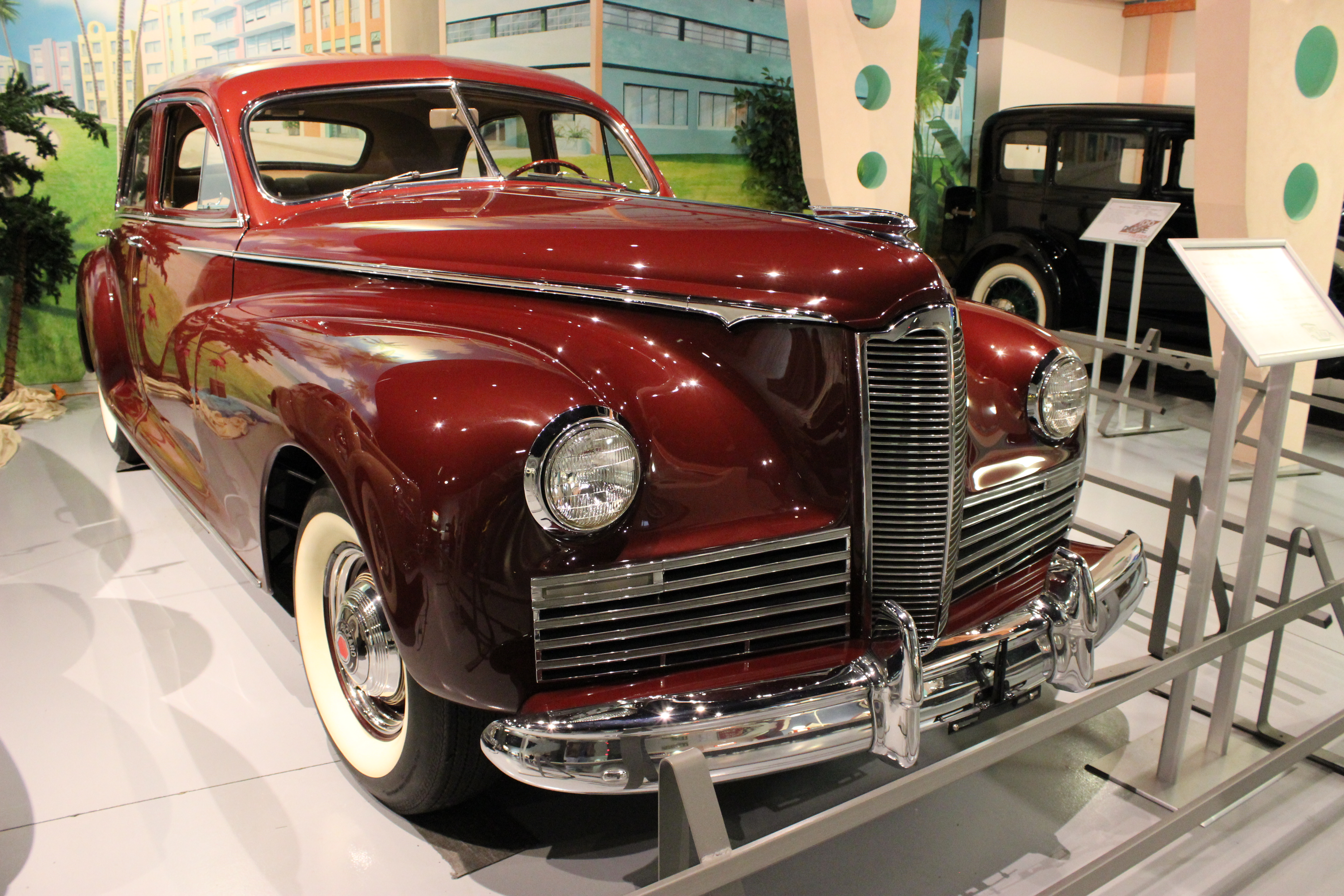 1941 Packard Clipper Antique Automobile Club of America Museum, Hershey